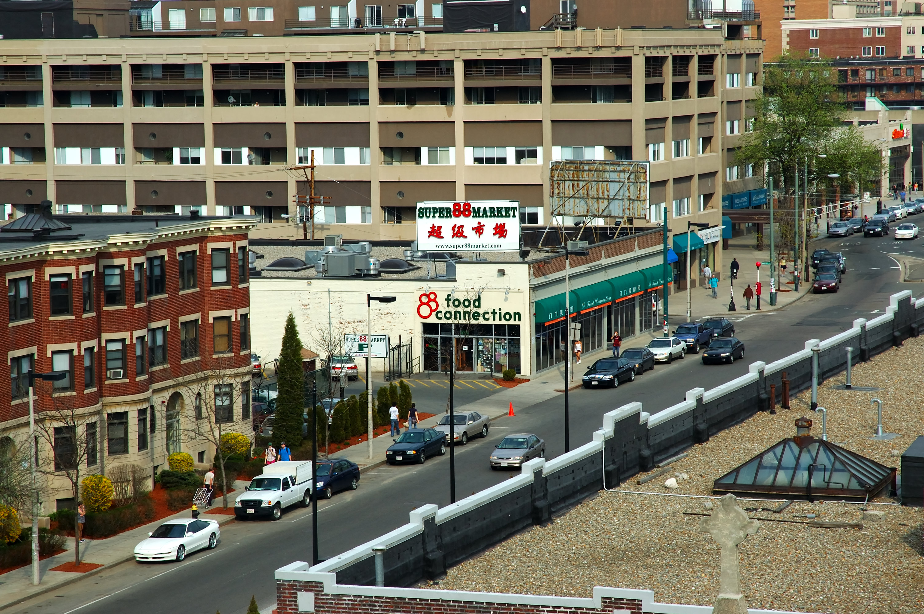 Street scene taken from roof of building in Allston, Massachusetts. This view looks down Brighton Avenue towards Packard's Corner (at the top of the frame).